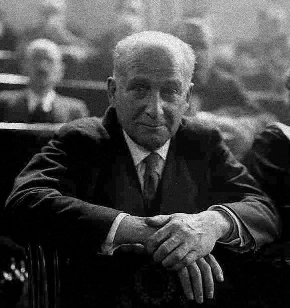 Largo Caballero, Socialist, trade-union leader. Prime Minister of Spain in first stage of Spanish Civil War. Here in Cortes Generales; 1936